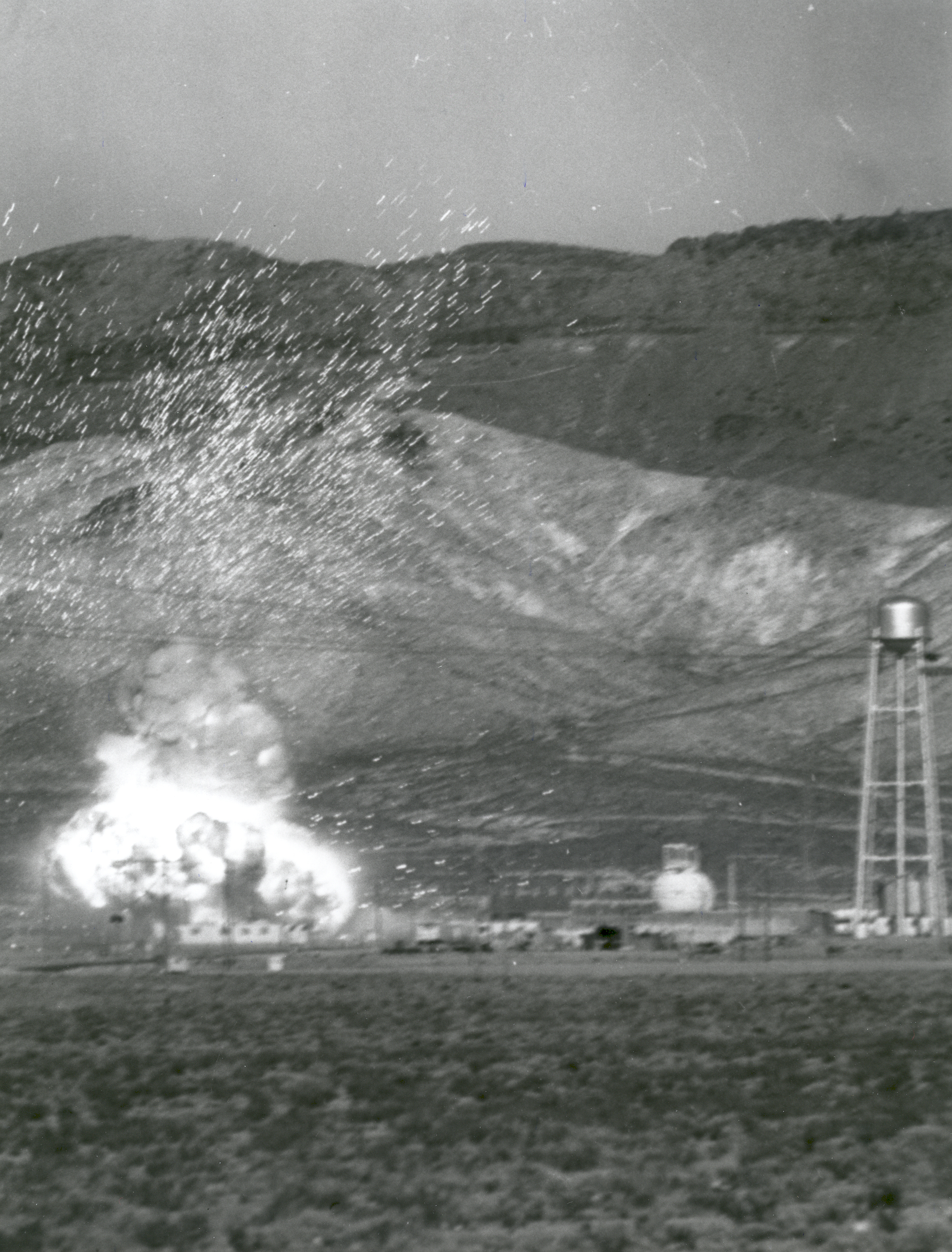 A modified Kiwi nuclear reactor was deliberately destroyed at the Nuclear Rocket Development Station in Jackass Flats, Nevada, as a safety experiment simulating an accident during a launch. Nuclear scientists imposed a sudden increase in power on the generator, there was a rapid release of heat and energy that caused the reactor to burst apart. The safety experiment was designed to obtain basic reactor shutdown information for use in predicting the behavior of nuclear rocket reactors under a wide range of accident conditions. Kiwi was a project under the National Nuclear Rocket development program, sponsored jointly by the Atomic Energy Commission and NASA as part of project Rover/NERVA (Nuclear Engine for Rocket Vehicle Application). The main objective of Rover/NERVA was to design a flight rated thermodynamic nuclear rocket engine. Kiwi was a prototype for a nuclear rocket reactor that could be used in space travel. Gaseous hydrogen was used as a propellant on the Kiwi-A tests that began in 1959. Kiwi-A served as a learning tool to test specifications and to discover changes that needed to be implemented in the next phase of study, the Kiwi-B series. This project began in December 1961 and used liquid hydrogen as a propellant. In the late 1960's and early 1970's, the Nixon Administration cut NASA and NERVA funding dramatically. The cutbacks were made in response to a lack of public interest in human spaceflight, the end of the space race after the Apollo Moon landing, and the growing use of low-cost unmanned, robotic space probes. Eventually NERVA lost its funding, and the project ended in 1973.